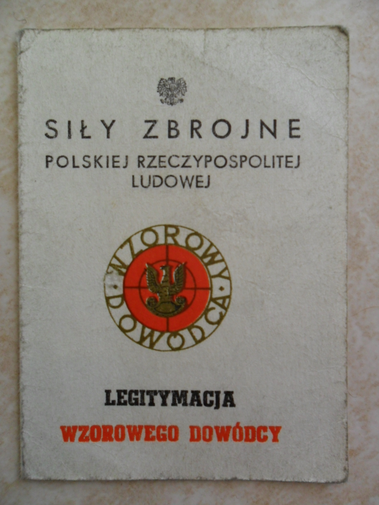 Legitimacy "Exemplary Commanders'